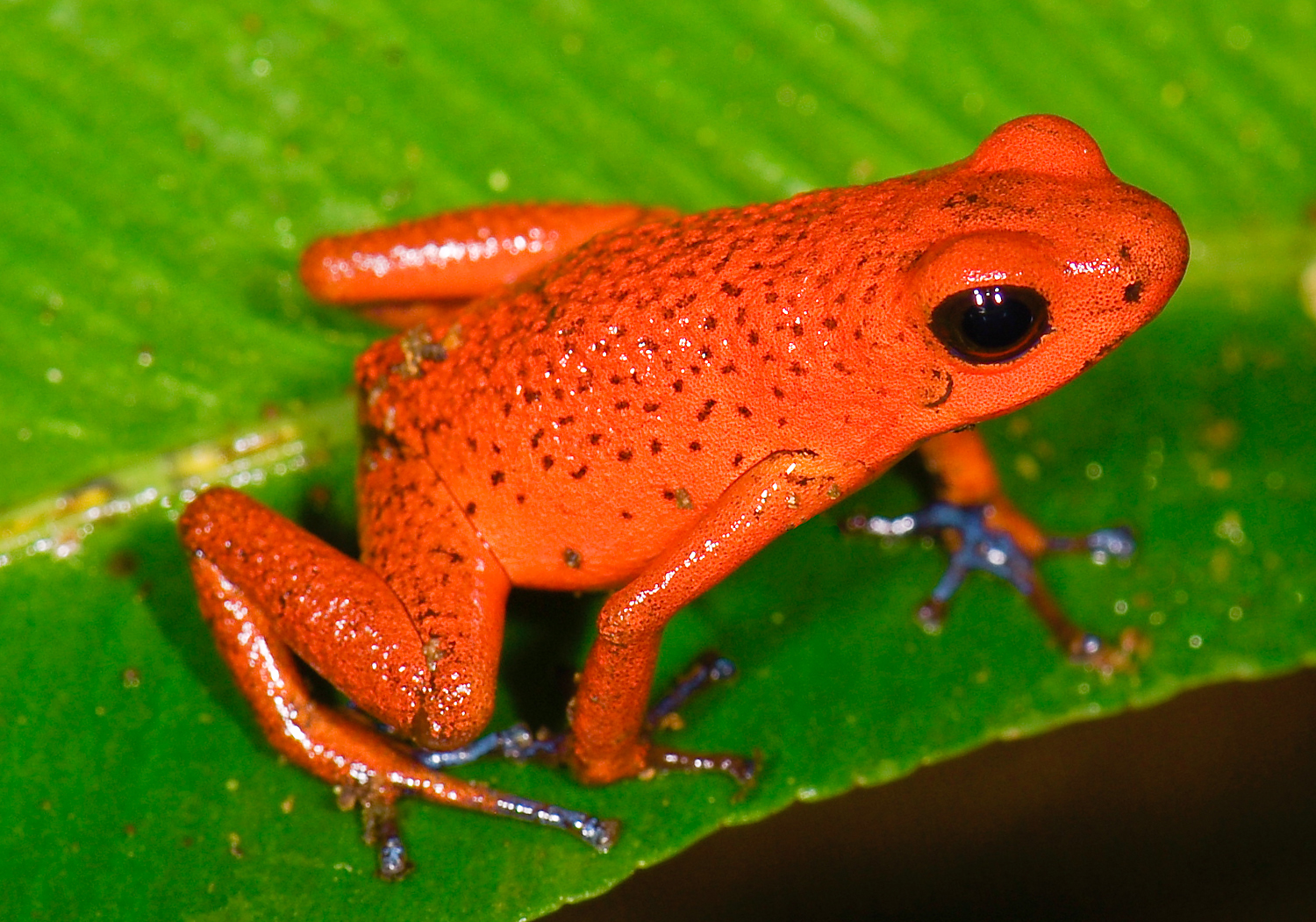 Costa Rica. more information here